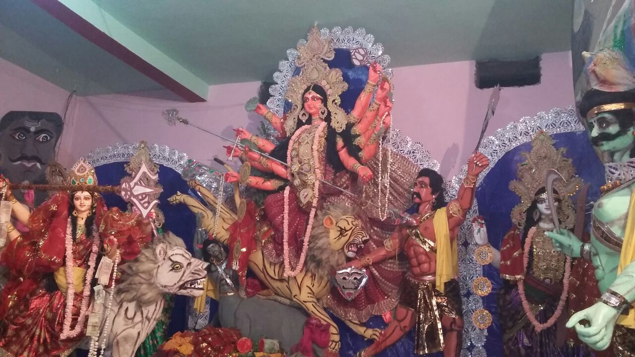 idol of goddess Durga in the Bhagwati Sthan (Kumai)